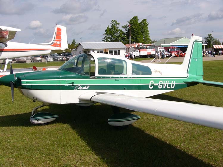 A Grumman AA-5A Cheetah (C-GVLU) at Smiths Falls Airport, Ontario, June 2005